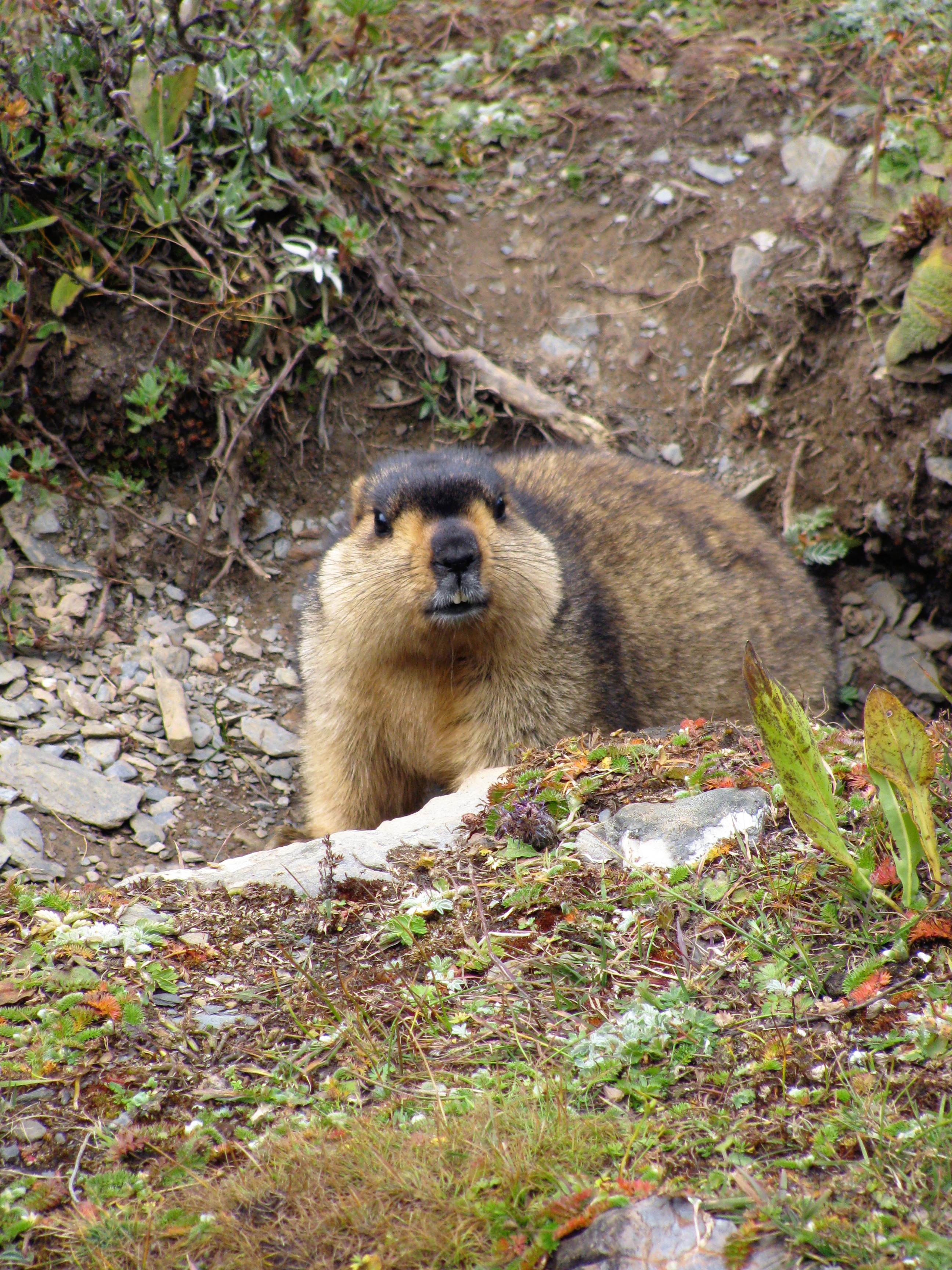 Himalayan Marmot - (Marmota himalayana) - photographed at Tshophu Lake altitude 4100 metres near Jangothang Bhutan.